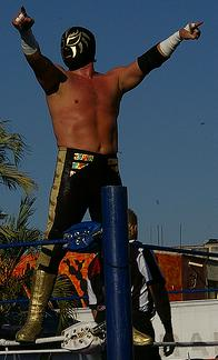 Picture of Luchador / Professional wrestler La Sombra